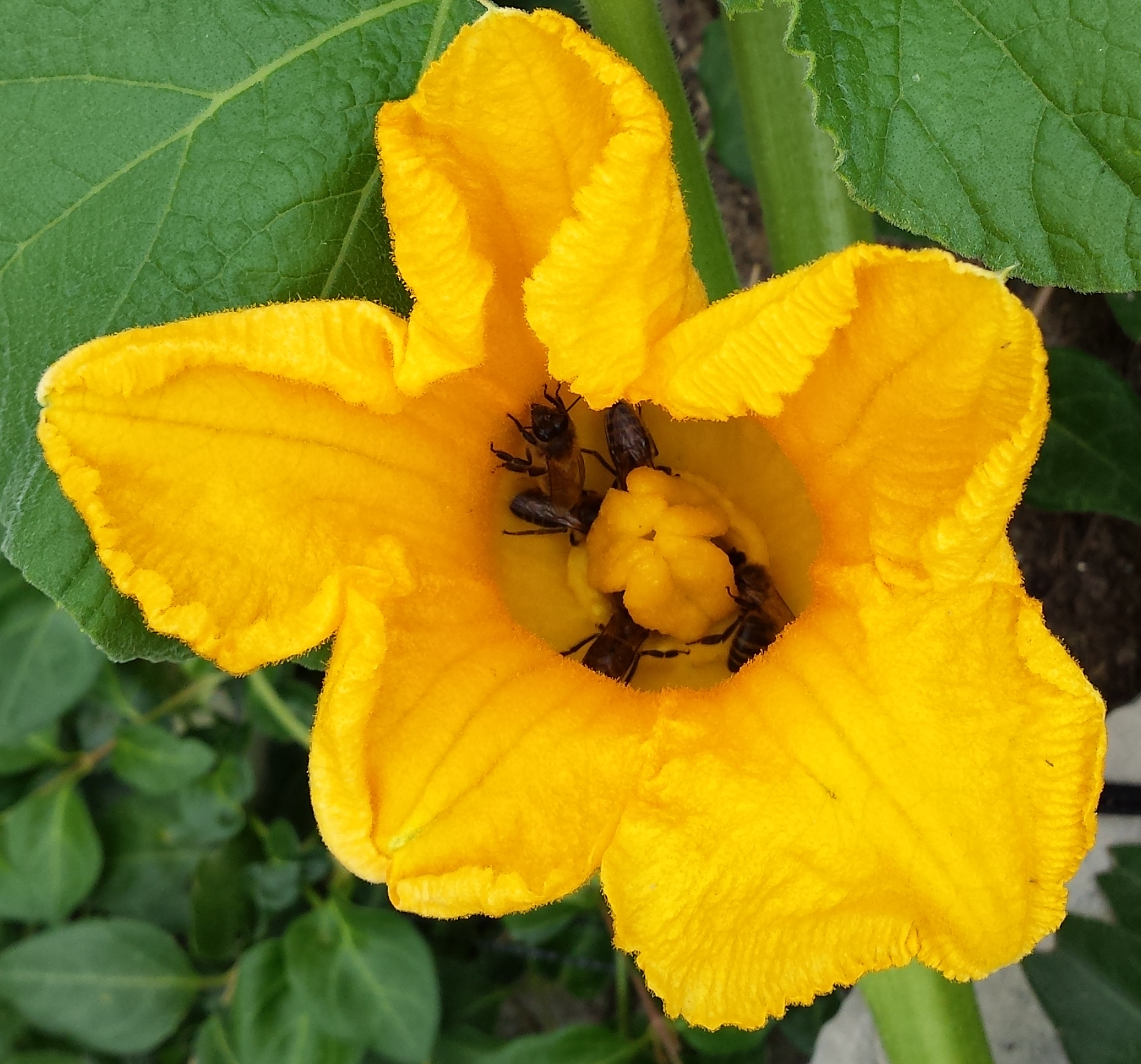 Honeybees and bumblebee polinating a female flower of pumpkin (Cucurbita maxima), Serra de Castelltallat